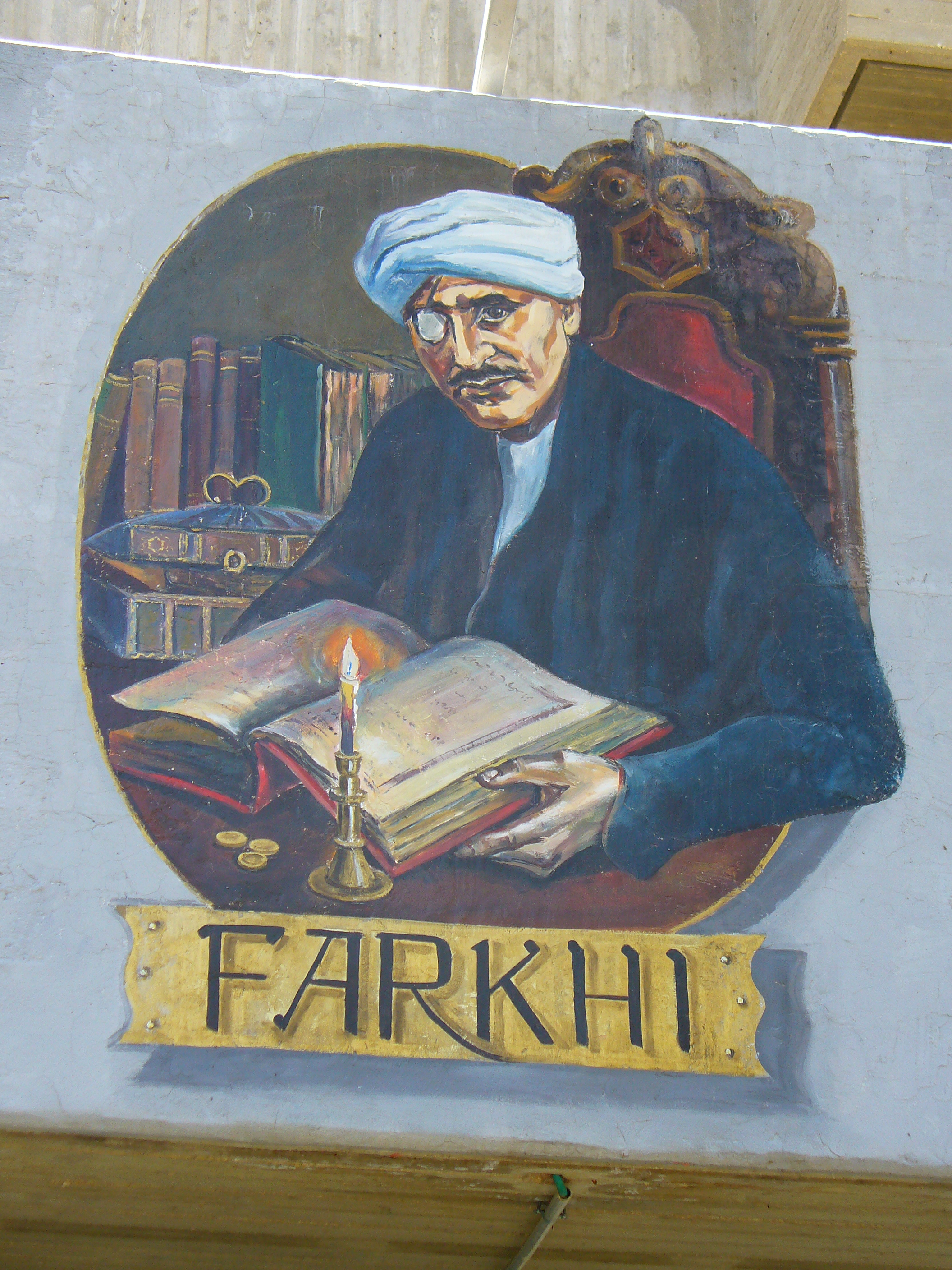 Wall painting of Haim Farhi, at the wall of Akko's Auditorium. Don't know the painters name though... More information (in Hebrew) about the paintings can be found here